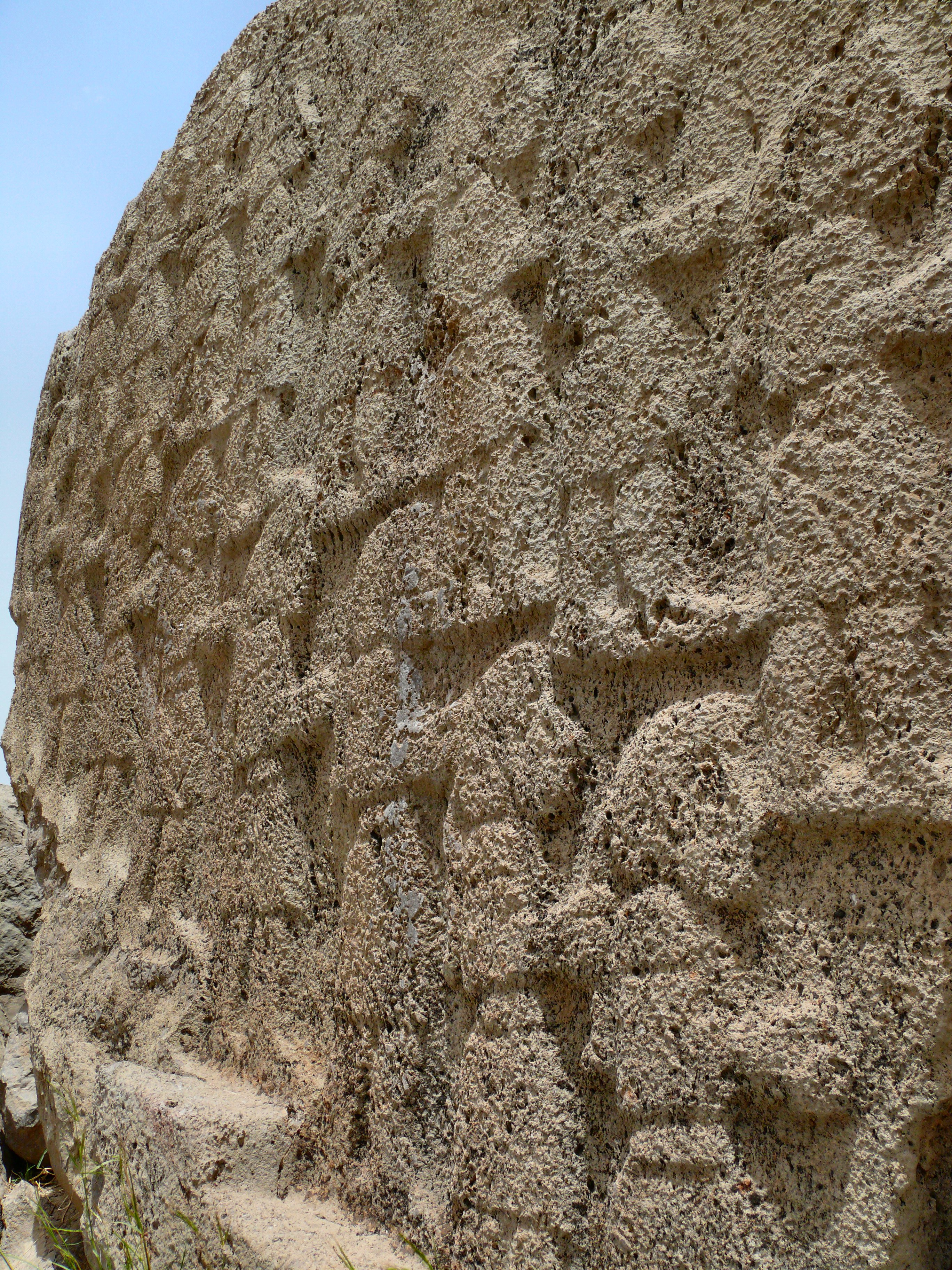 Ranks of processions of worshippers on the left later added panels of the Elamite Rock relief of Kurangun. Taken in Seh Talan village, Fahlian district, Vicinity of Noorabad, Fars province, Iran, May 2009.